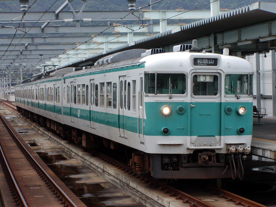 JR West 113 series EMU in Kinokuni Line colour